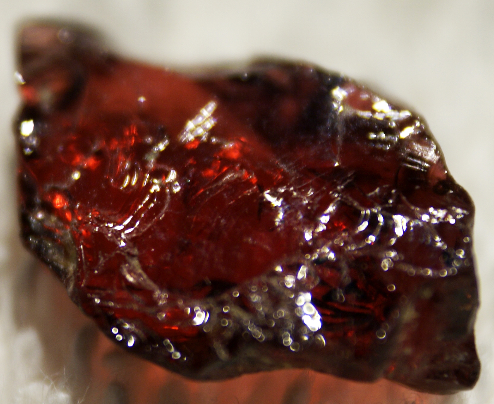 A small sample of garnet.